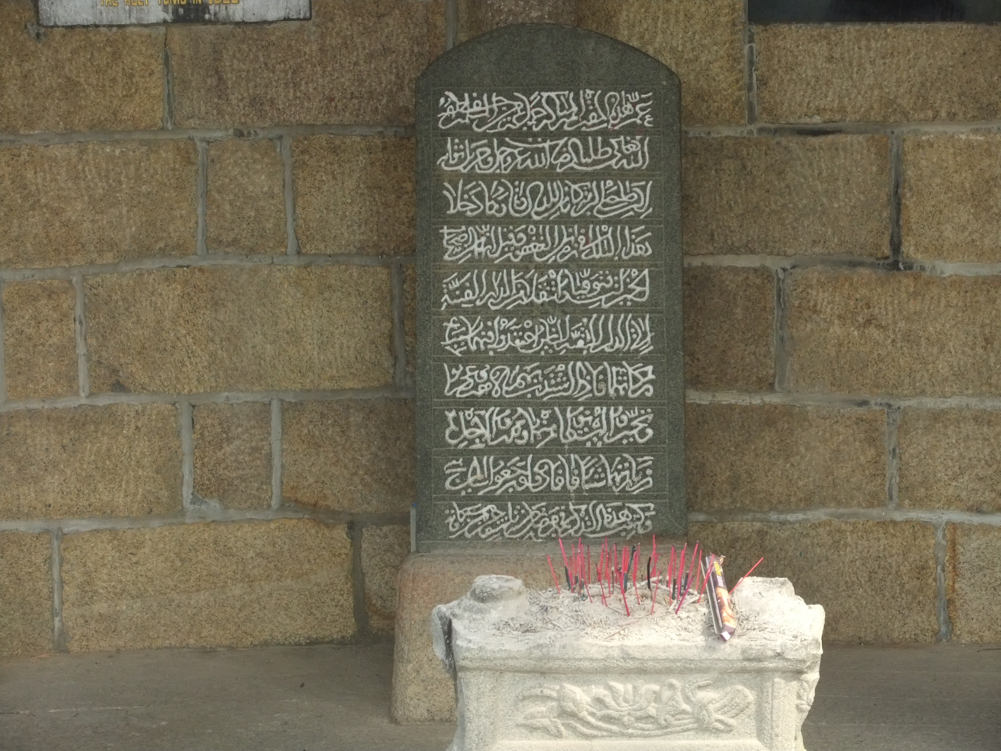 The tombs of the "Two Worthies", two early Islamic missionaries that supposedly came to Quanzhou to propagate Islam in the 7th century. They are the centerpiece of Lingshan Islamic Cemetery (Lingshan Park) in Quanzhou. There are a number of stelae next to them, erected at various times from the Yuan Dynasty to the present day.